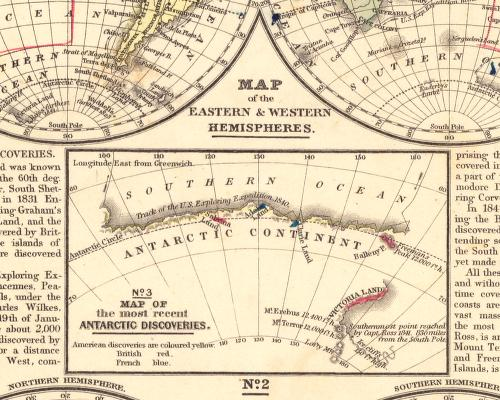 A map of the Antarctic region circa 1848